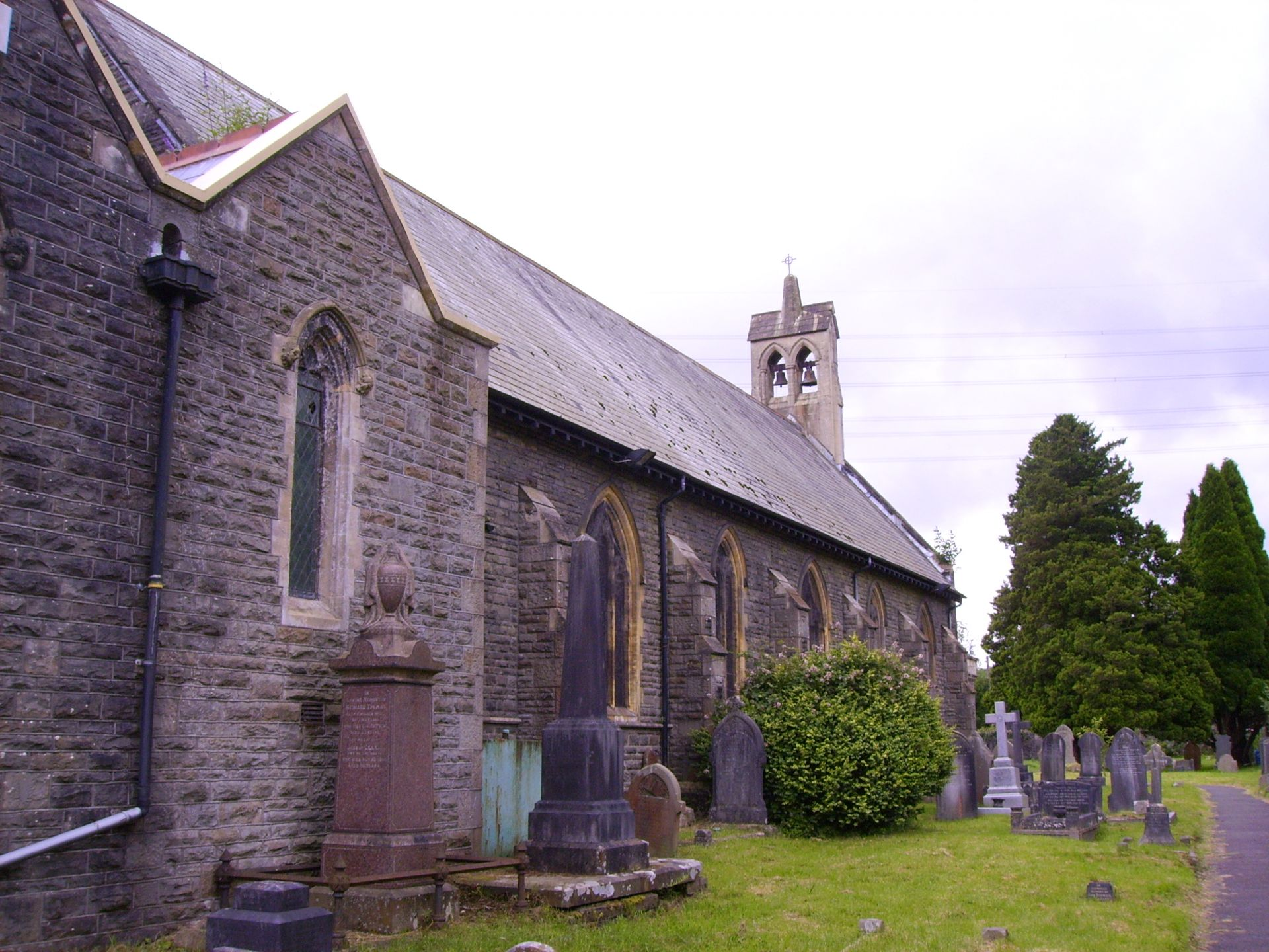 Saint Davids' Church, Hopkinstown, Rhondda Cynon Taf